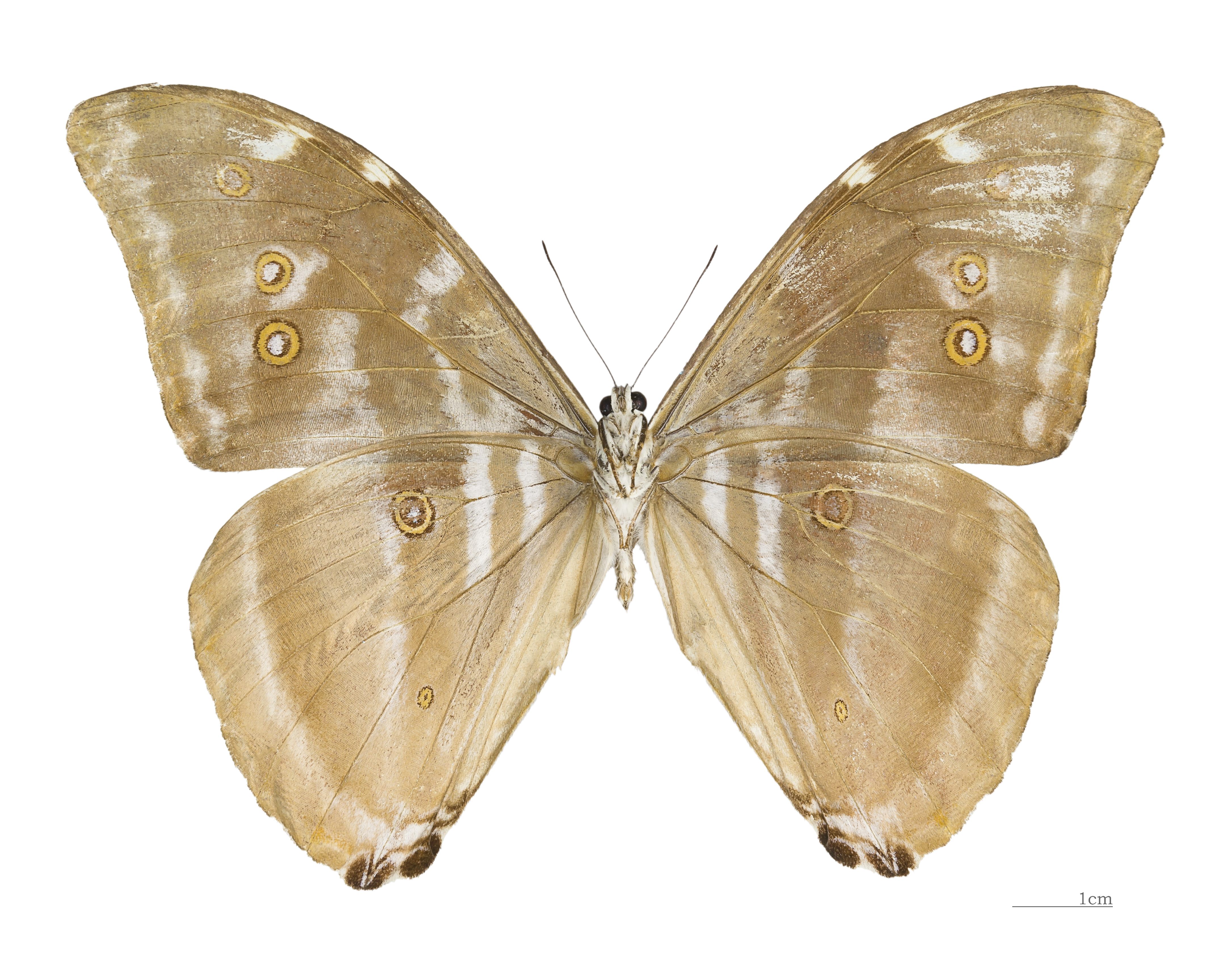 Empress Eugénie Morpho - △ Ventral side